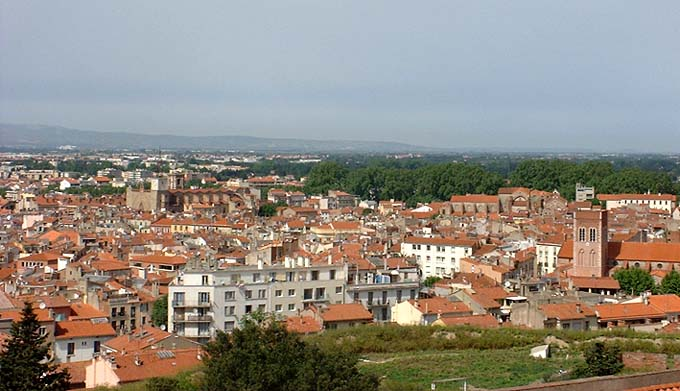 This image was copied from fr. The original description was: Perpignan vu depuis le Palais des Rois de Majorque Photo Jean Tosti Libre de droits